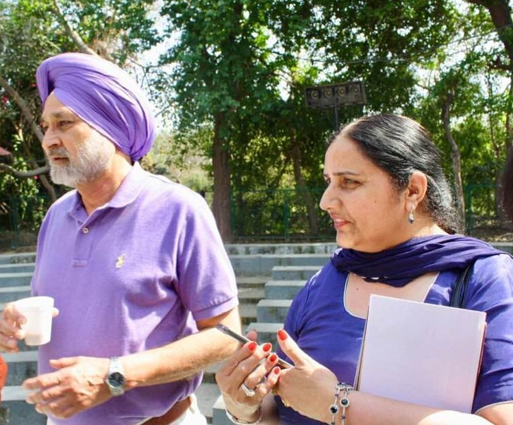 Punjabi poet Ravinder Sahra with his wife at Punjab Art Council ,Chandigarh